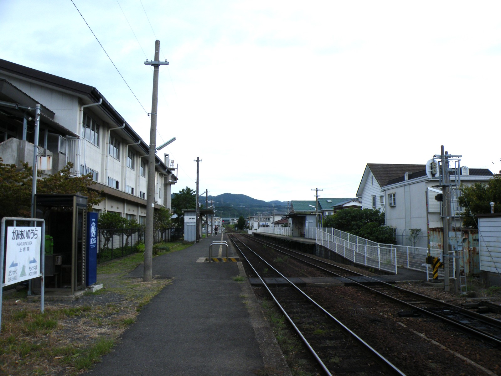 Matsuura Railway Kami-Ainoura Station